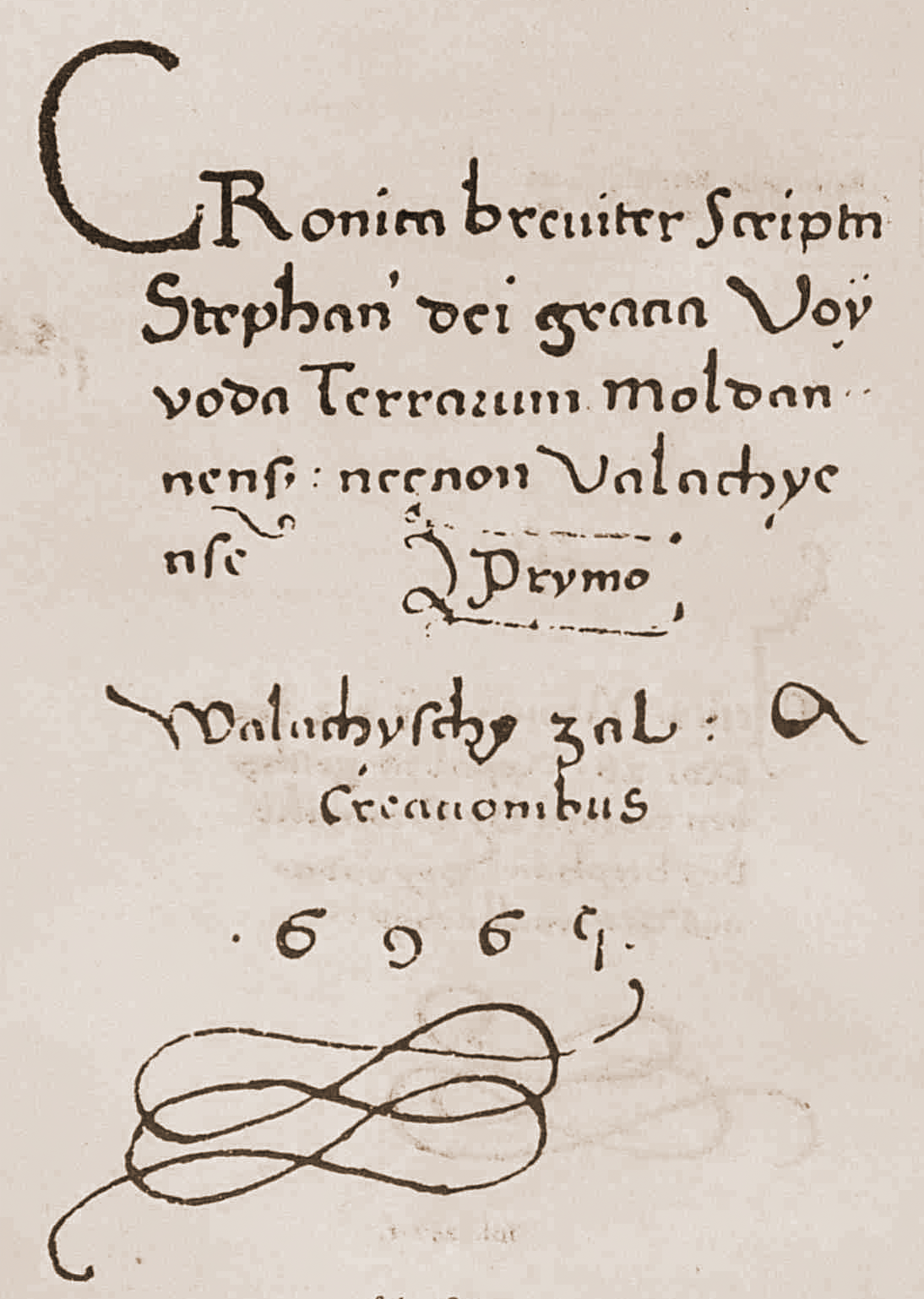 A page from the ”Moldovan-German Chronicle” from 1500